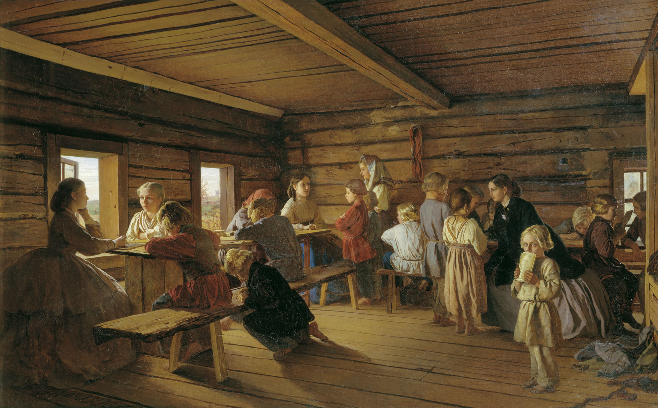 Alexander Iwanowitsch Morosow (1835-1904) Rural Free School